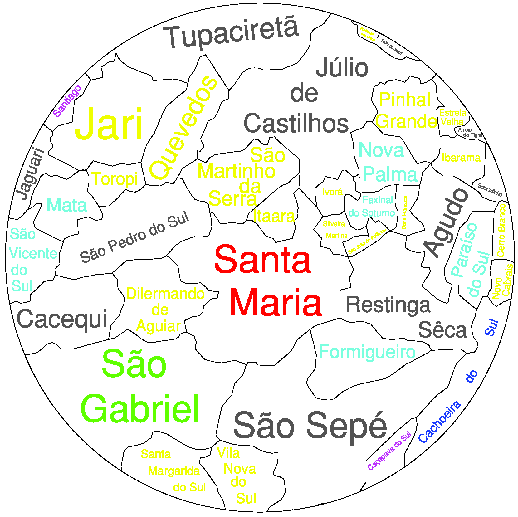 População de Santa Maria e arredores. Rio Grande do Sul. Brasil. Censo 2010. cor: População Vermelho: +250 mil até 300 mil azul: de 75 mil a 100 mil verde: de 50 a 75 mil magenta: de 25 a 50 mil preto: de 10 a 25 mil cyan: de 5 a 10 mil amarelo: até 5 mil